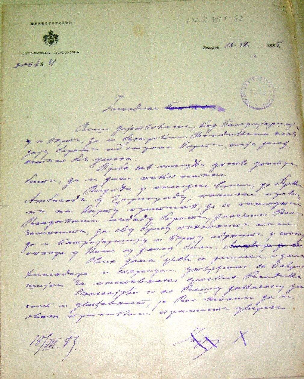 Letter from the Foreign Ministry to Gruikj to use all the energy in the Patriarchate to prevent the release of Berati to the Bulgarian bishops. (Belgrade, 18 July 1885) This media file is produced by Wikipedian in Residence in Category:Wikipedian in Residence at DARM in 2016.